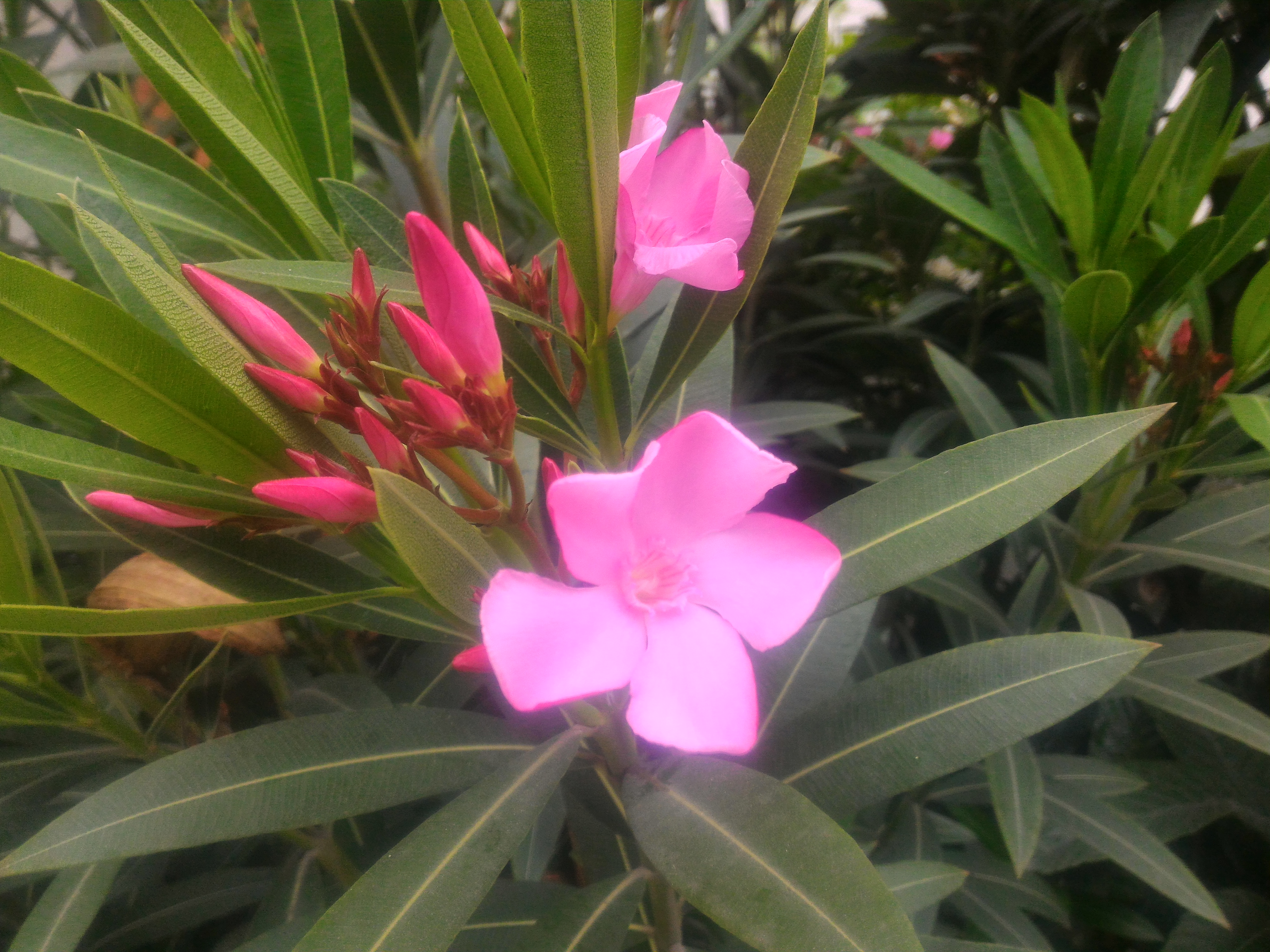 It is a flower image of leander planet